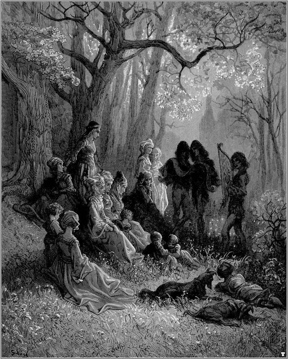 Gustave Doré (1832-1883), Troubadours singing the Glories of the Crusades